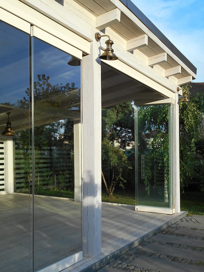 Загородный дом, остекленный при помощи постелума